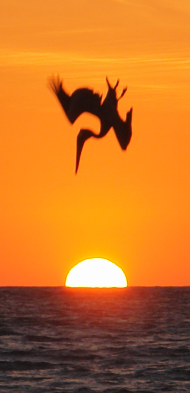 Brown Pelican hunting fish at sunset at Sarasota Beach Florida